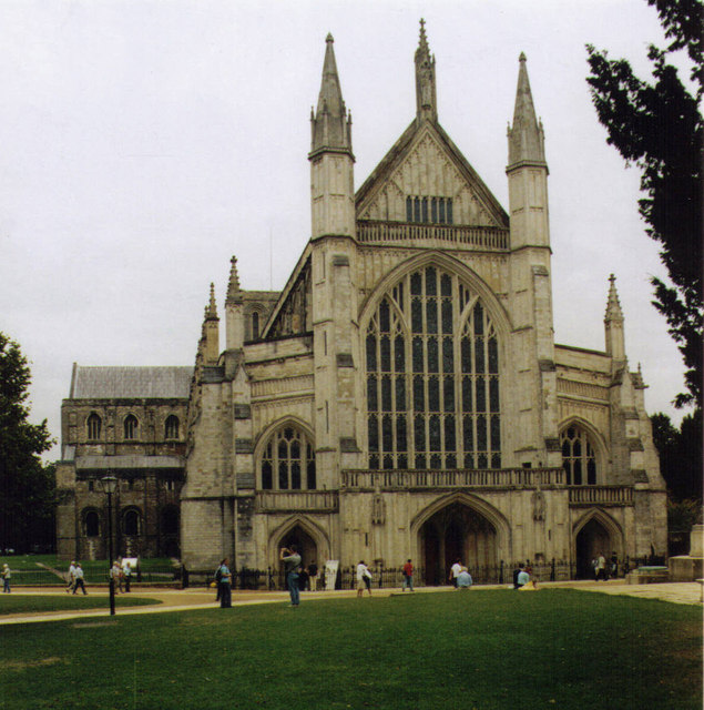 Holy Trinity Cathedral, Winchester Grade 1 listed building erected in the 11th century.